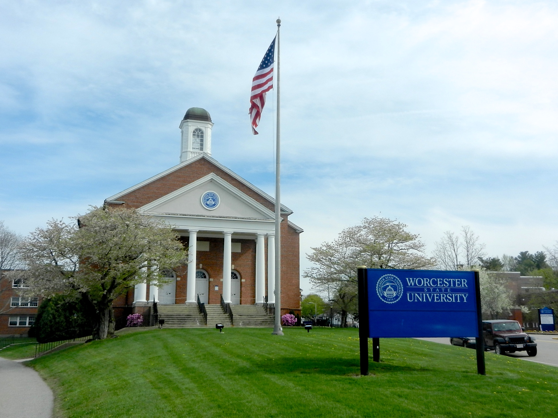 The May Street Building (formerly Temple Emanuel) on the campus of Worcester State University in Worcester, Massachusetts.